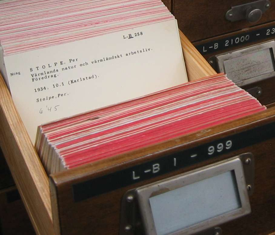 Sample catalog card in the card catalog for Radio Sweden's archive of recorded broadcasts, still in active use in 2005. This card documents a radio lecture by Per Stolpe, broadcast on January 10, 1934.